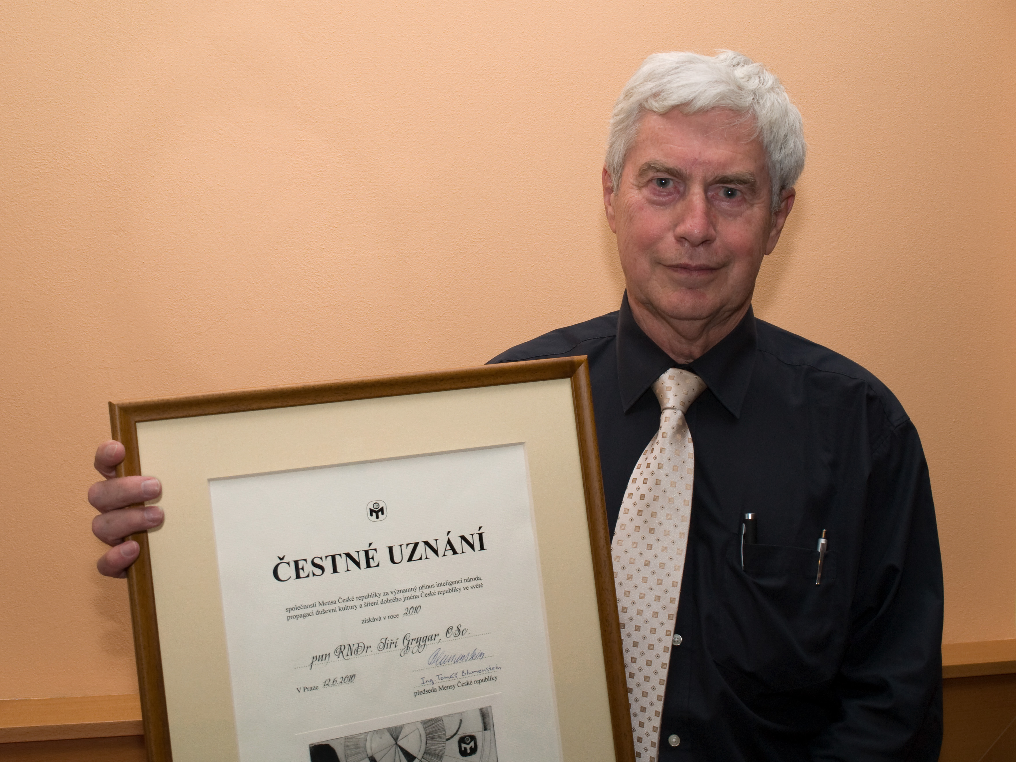 Jiří Grygar, Czech astronomer and astrophysicist, with Honorable Mention from Mensa Czech Republic